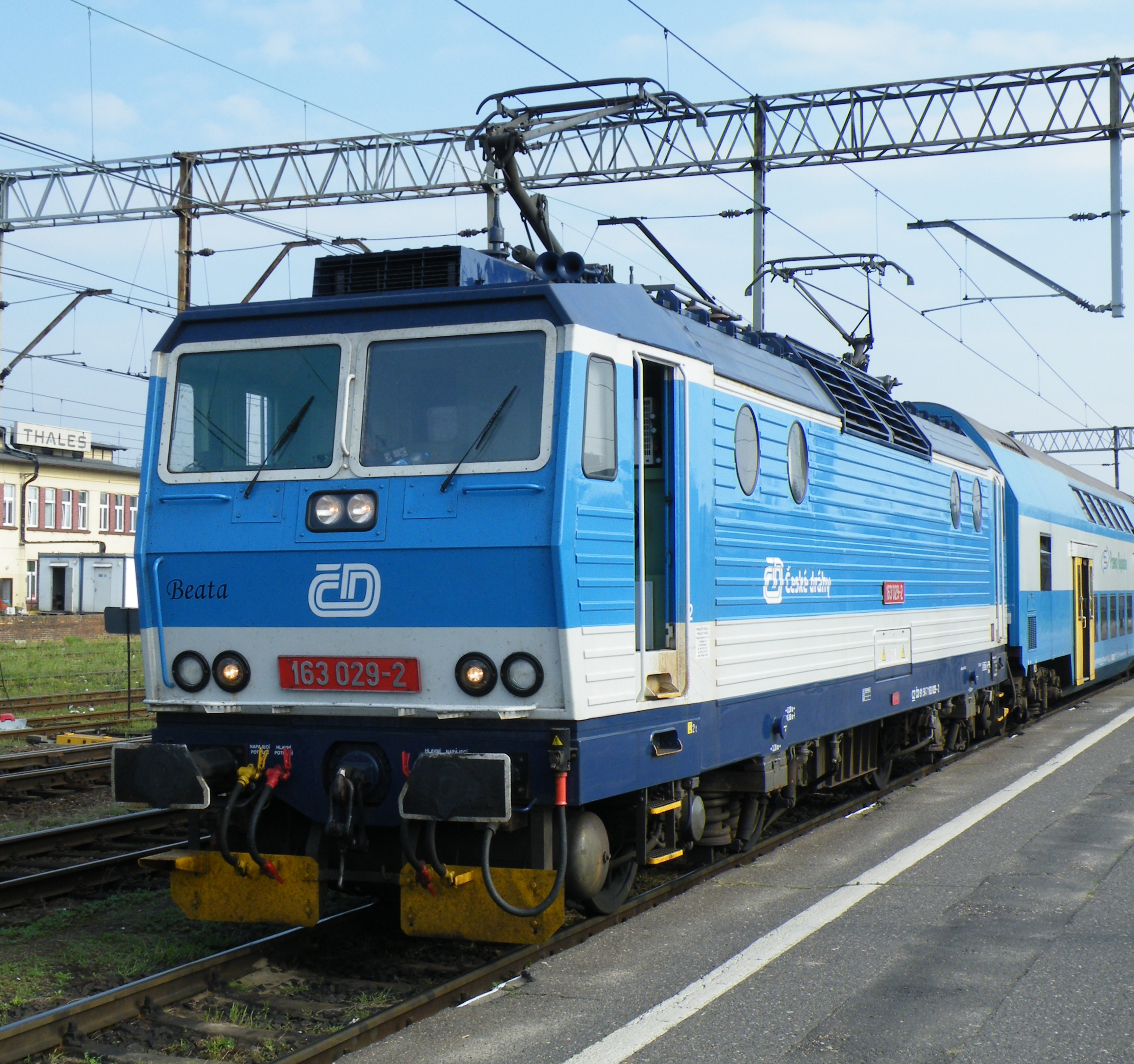 Electric locomotive CD class 163 "Beata" operated by Polish Przewozy Regionalne